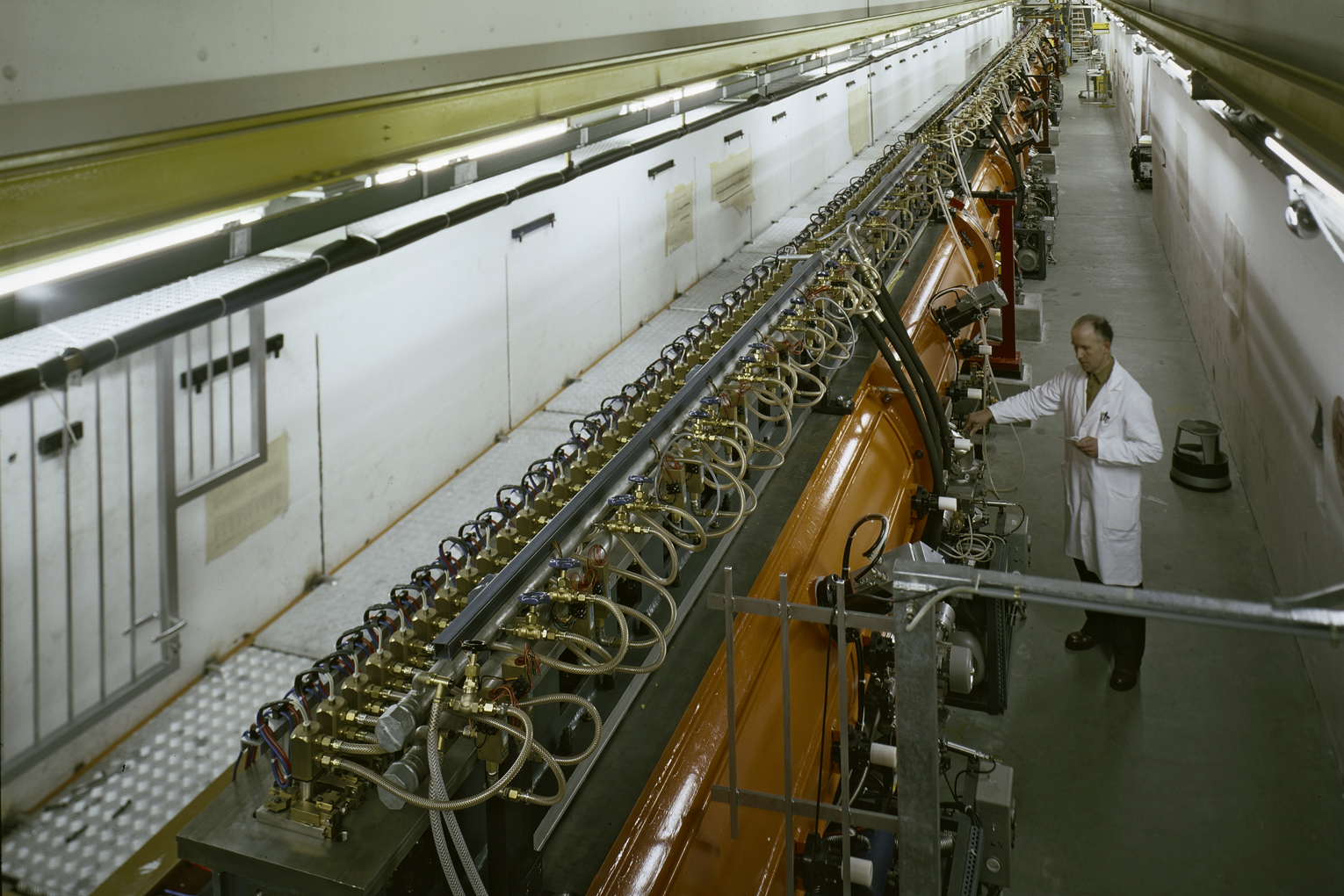 Overall view of the Linac 2 facility at CERN